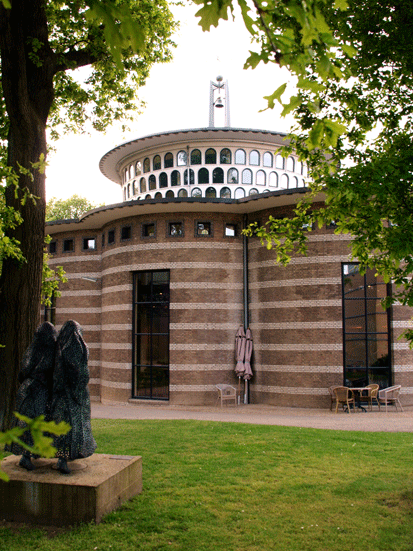 Chapel Saint Maartens Hospital, Ubbergen, the Netherlands